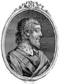 Malcolm I, d. 954. King of ScotsGàidhlig: Maol Chaluim I na h-AlbaScots: Malcom I o Scotland